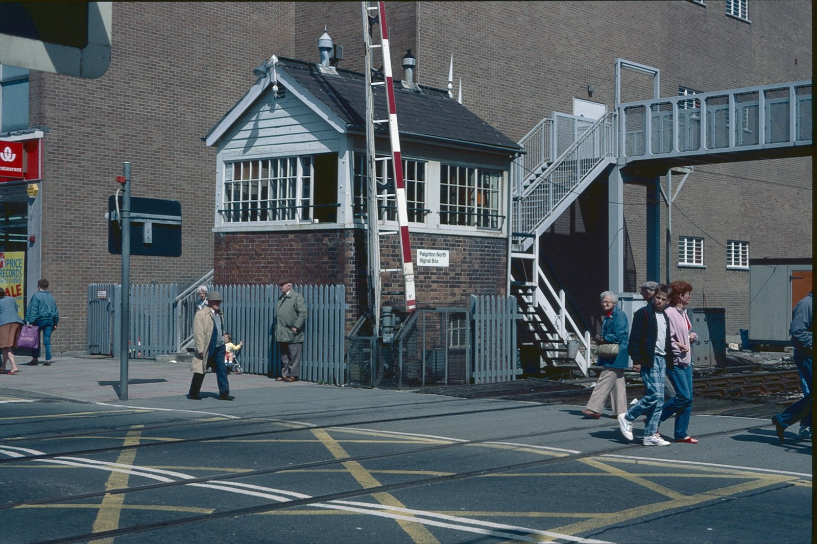 Paignton North Signal Box Like the Woolworth Store next door, sadly a thing of the past.